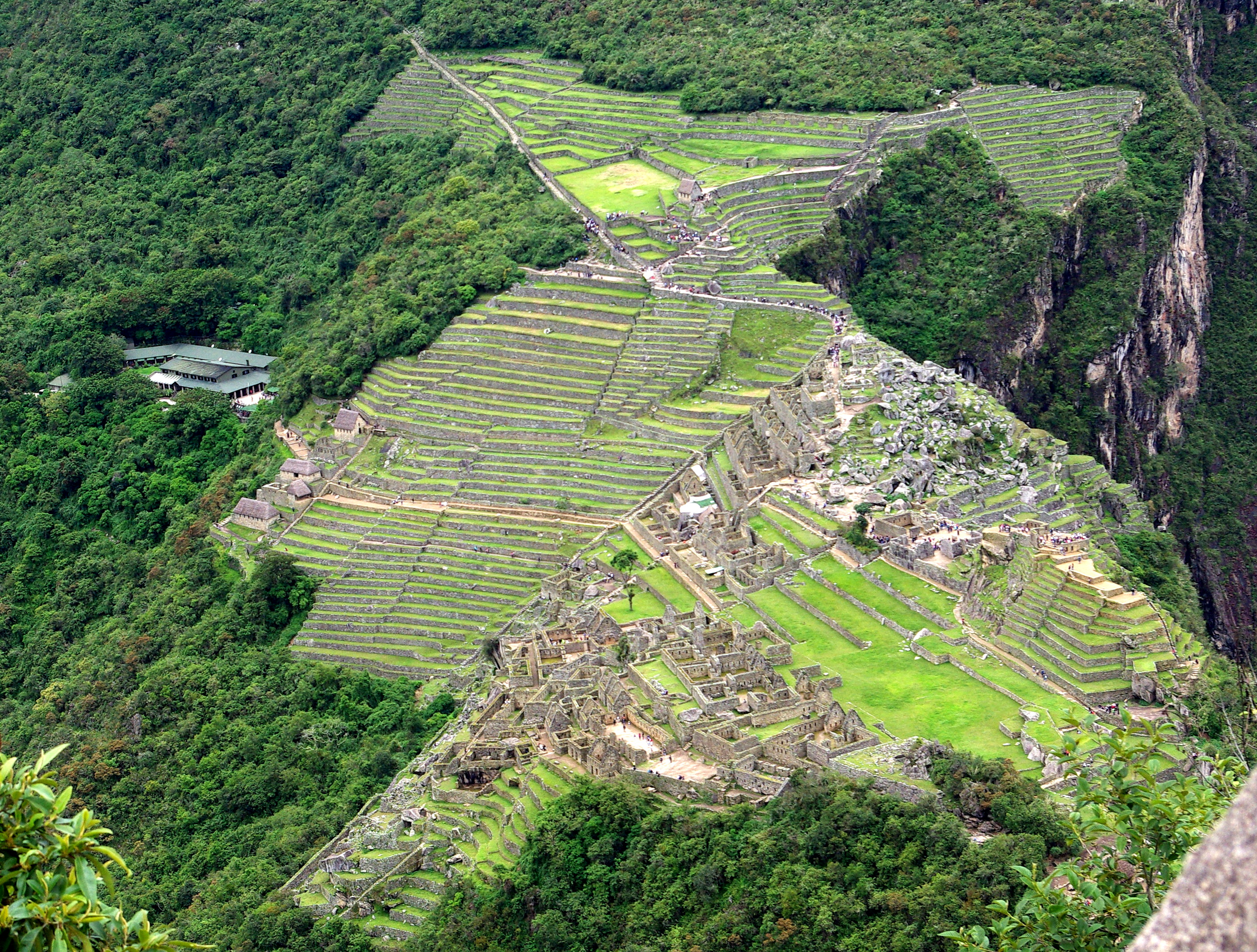 A view of the entire site of Machu Picchu, seen from Huayna Picchu. At far left is the visitor centre and main entrance. At the top is the path to the Sun Gate.